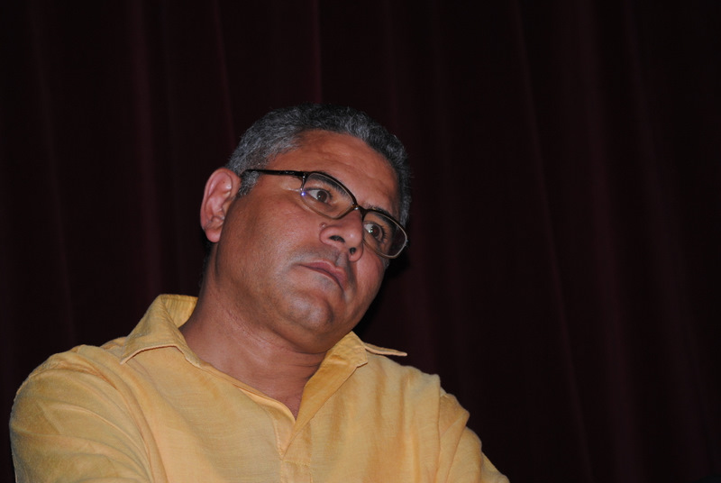 Human Rights Lawyer Gamal Eid @ Tweet Nadwa